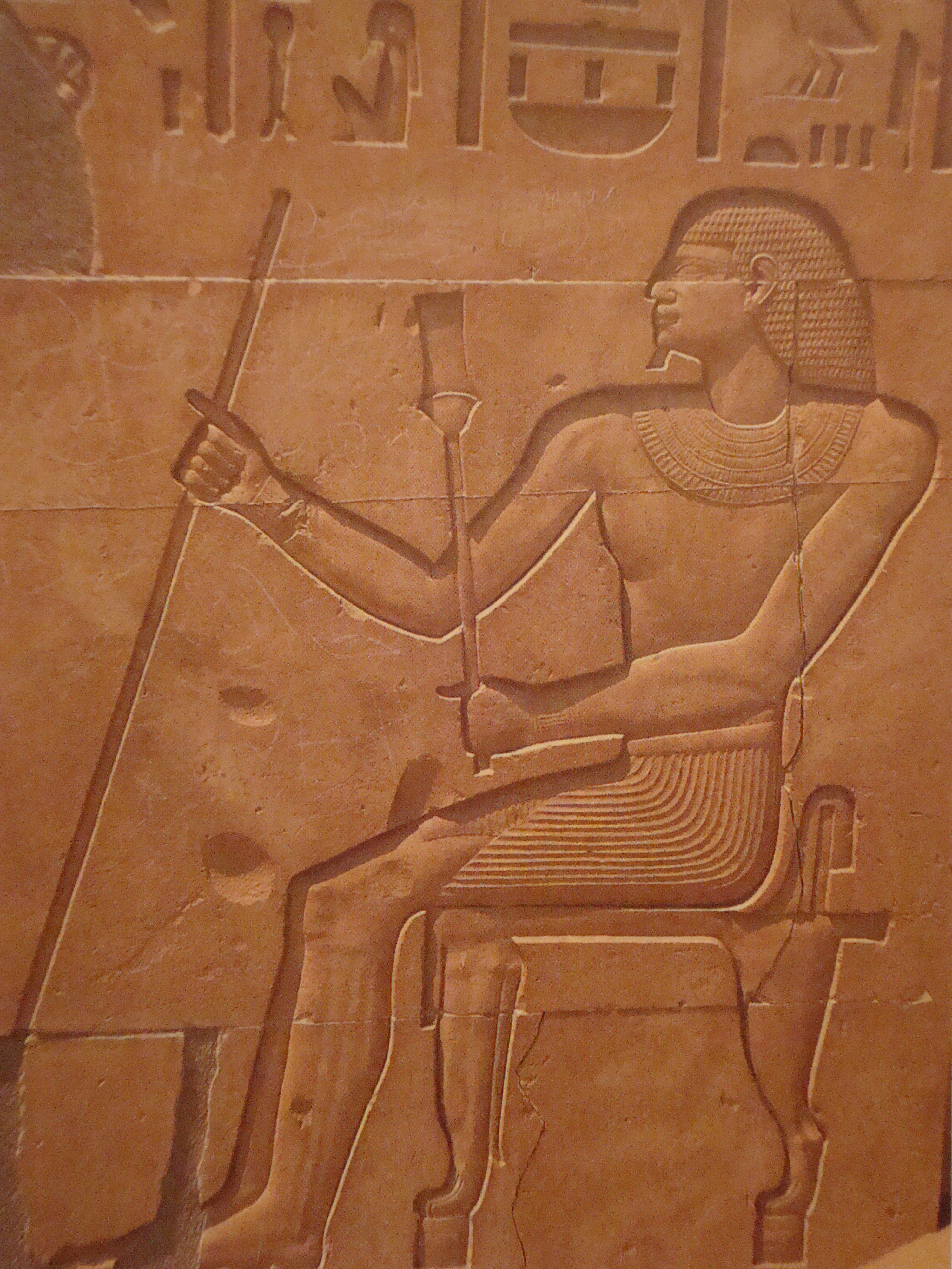 Sarenput I